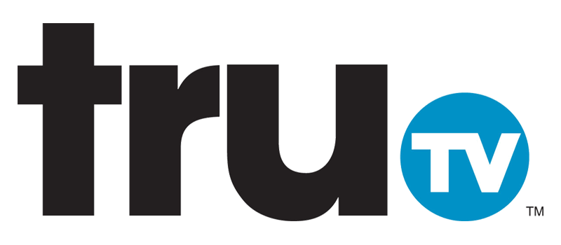 truTV Logo